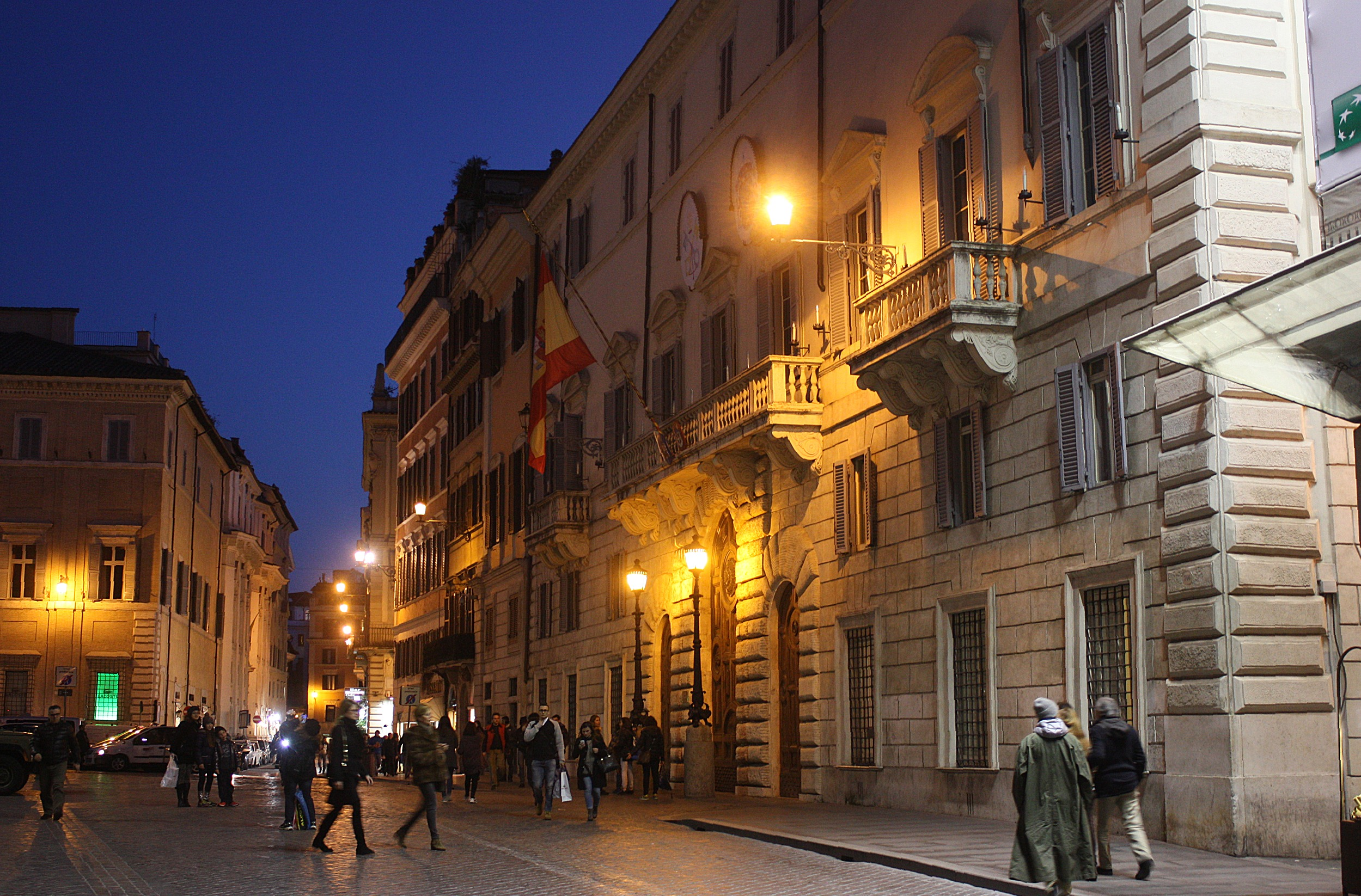 Rome, on the Piazza Mignanelli